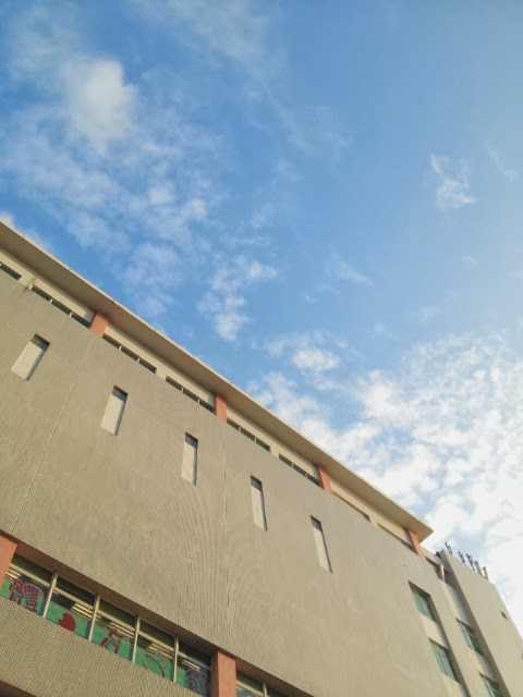 Lei Yue Mun Municipal Services Building in Yau Tong, Hong Kong